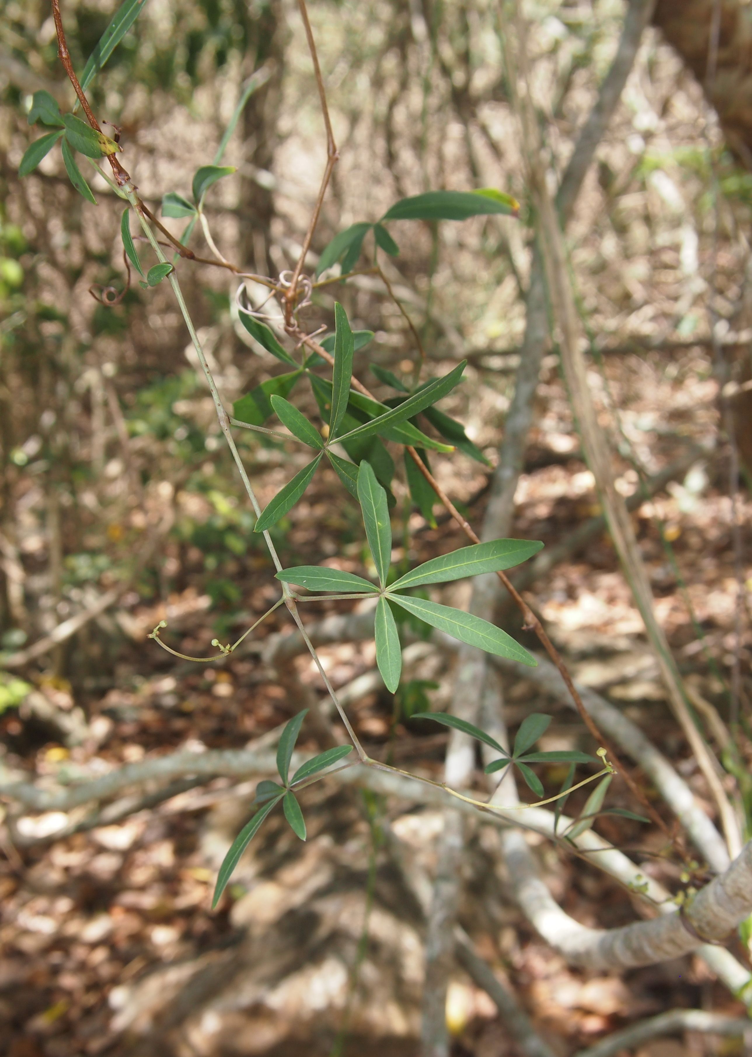 Clematicissus opaca foliage and inflorescence.